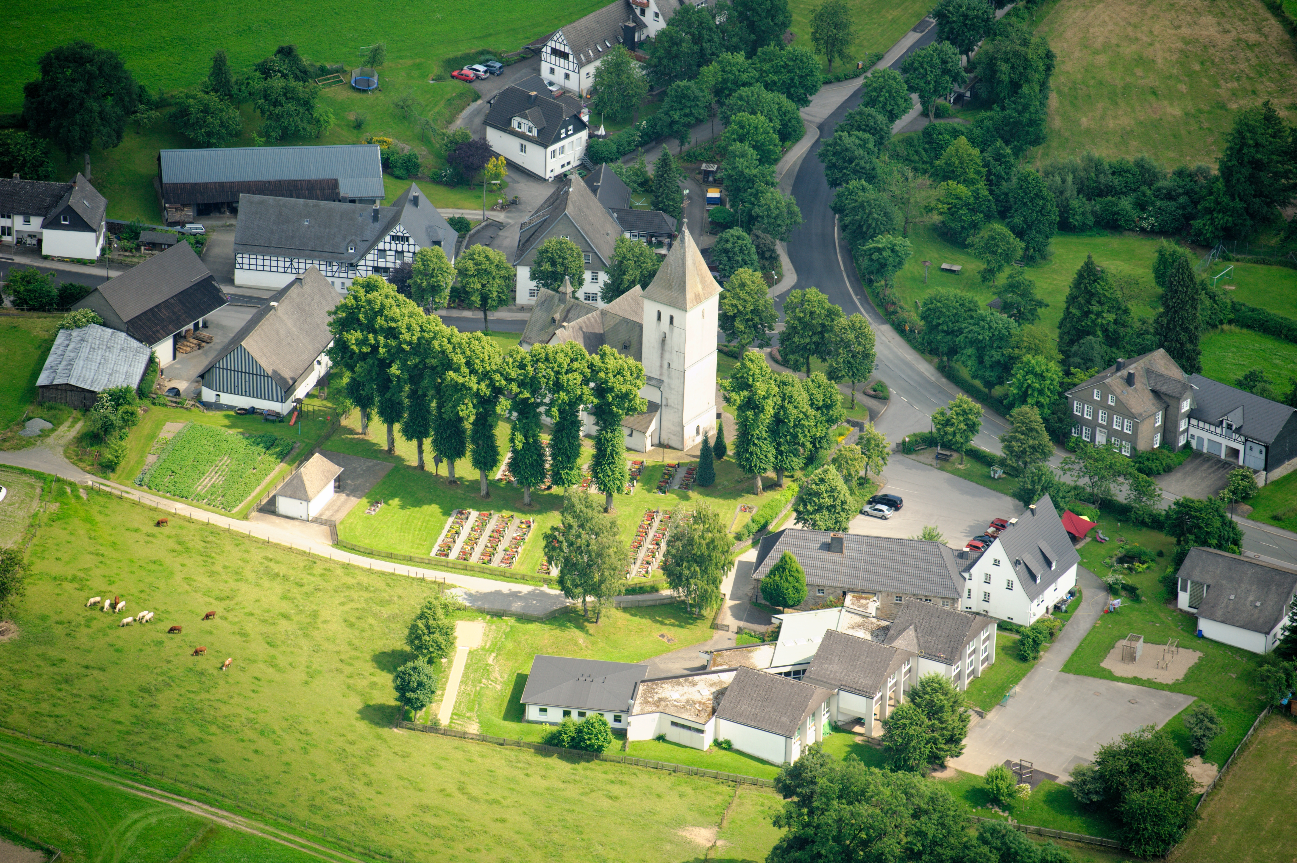 Fotoflug Sauerland-Ost, Schmallenberg-Berghausen, Kirche St. Cyriakus The making of this document was supported by the Community-Budget of Wikimedia Germany.